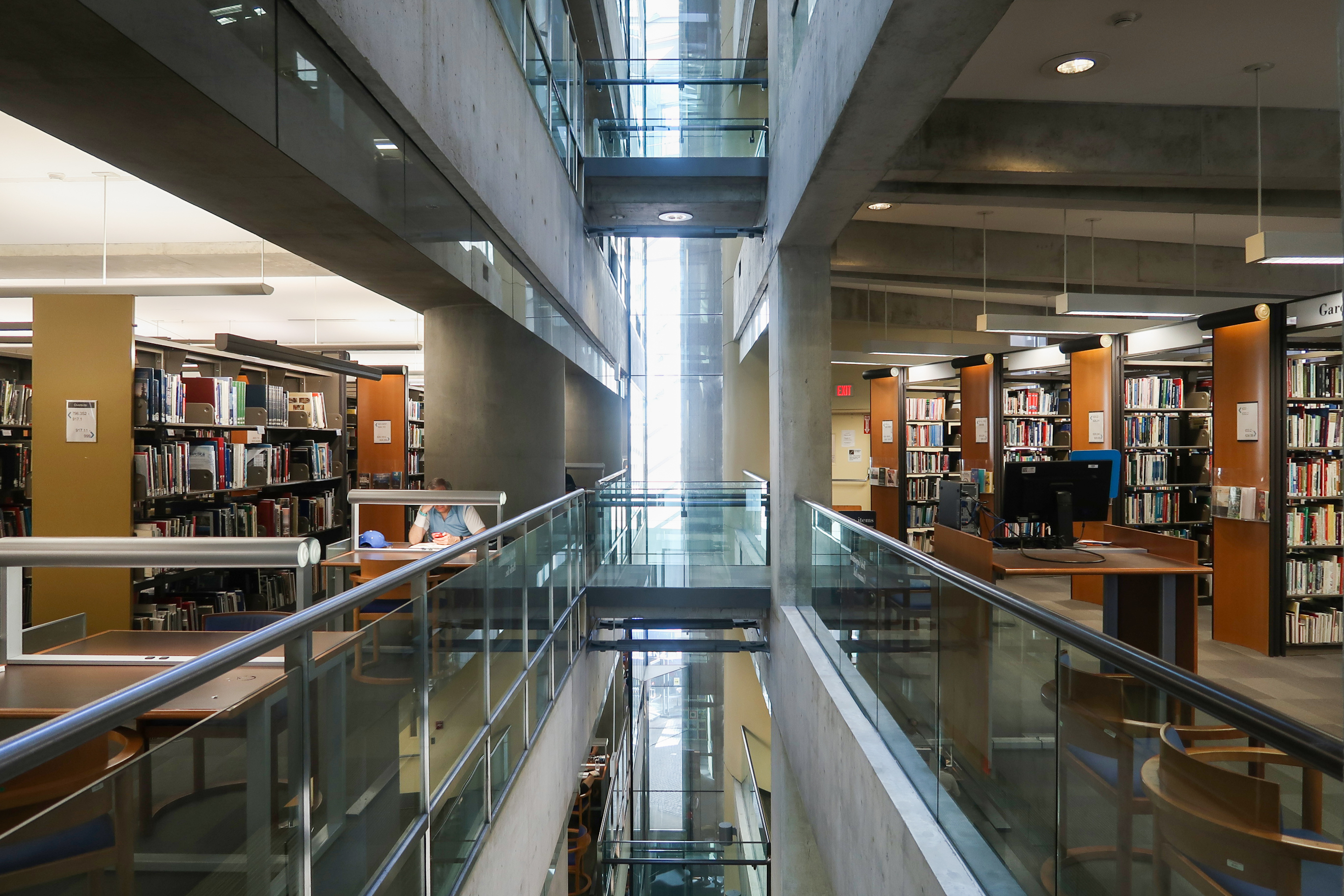 Vancouver Public Library Level 4